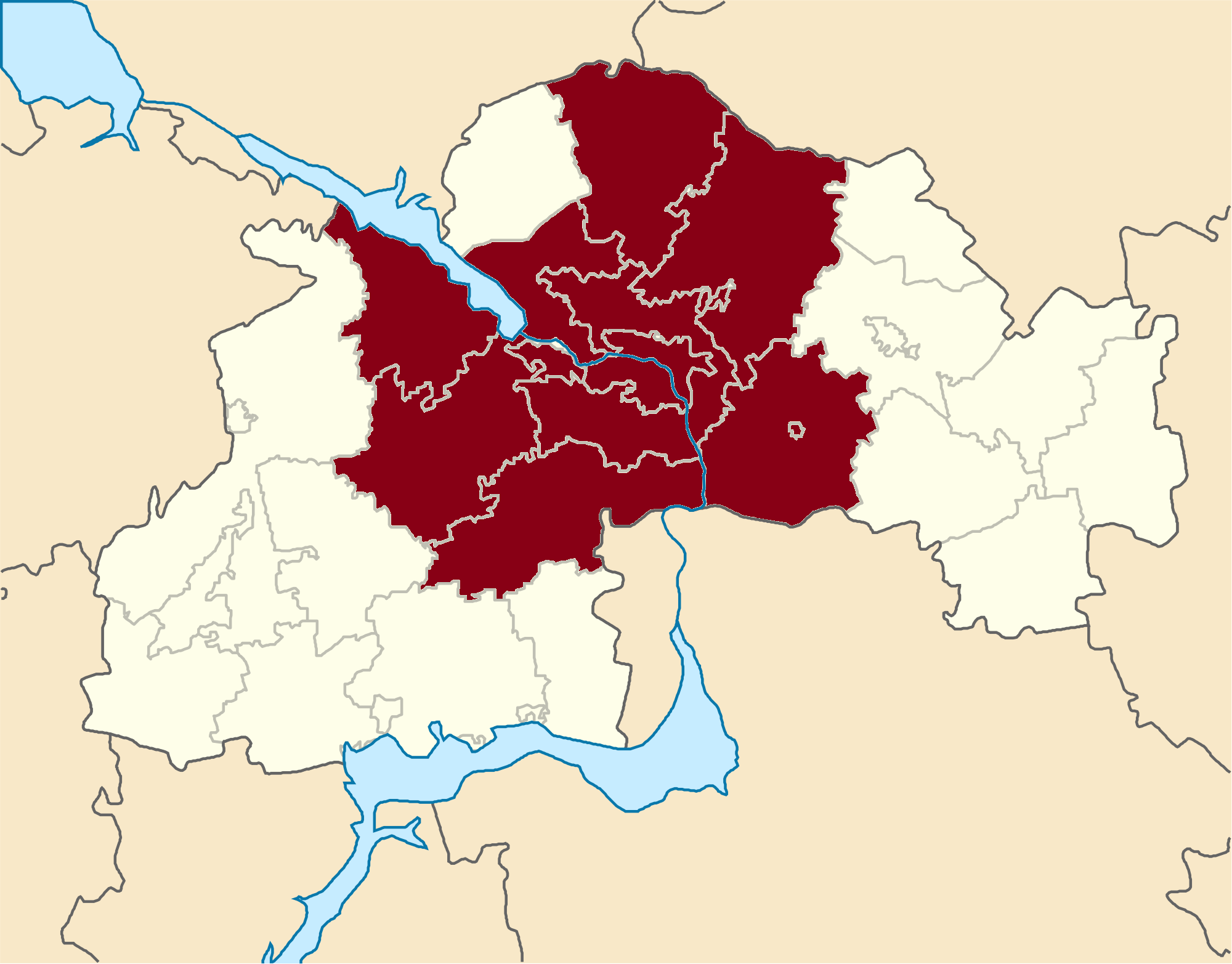 Metropolitan Region Map